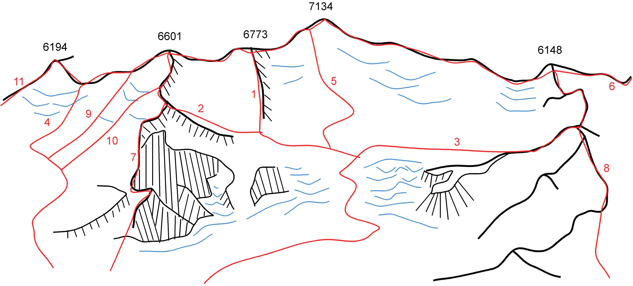 Routes: 1) Chernucha 1934 2) Ratsek 1950 3) Kovalev 1954 4) Cheredova 1960 5) Arkin 1960 6) Abalakov 1960 7) Skurlatov 1967 8) Shabanova 1970 9) French route 1974 10) English route 1974 11) Kashafuldinov 1991